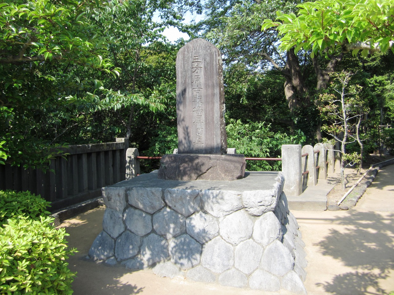 The monument of Saigagake at Mikatagahara battlefoeld in Hamamatsu, Shizuoka.